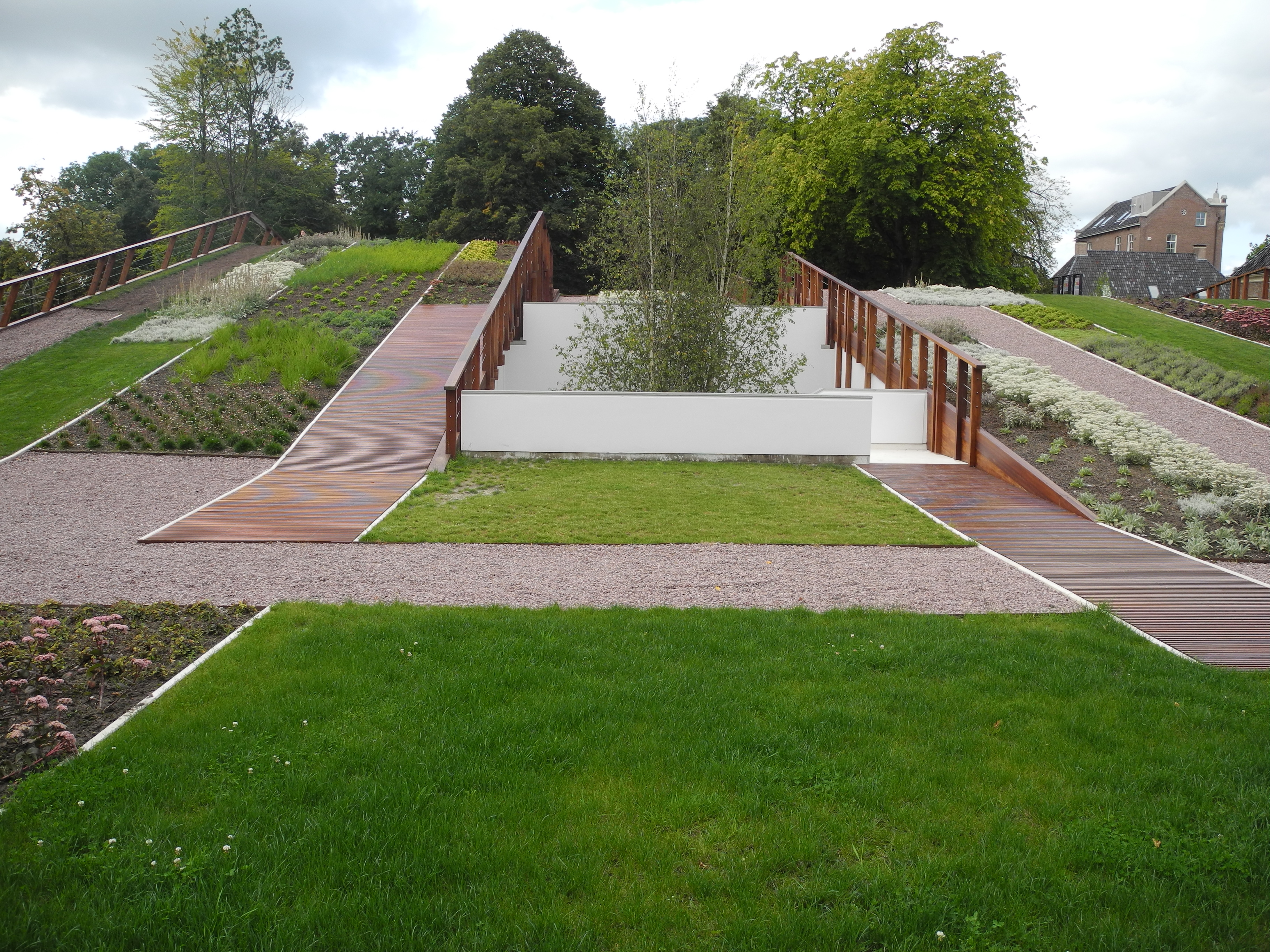 Jacob Cramerpark, the garden of the Drents Museum in Assen.